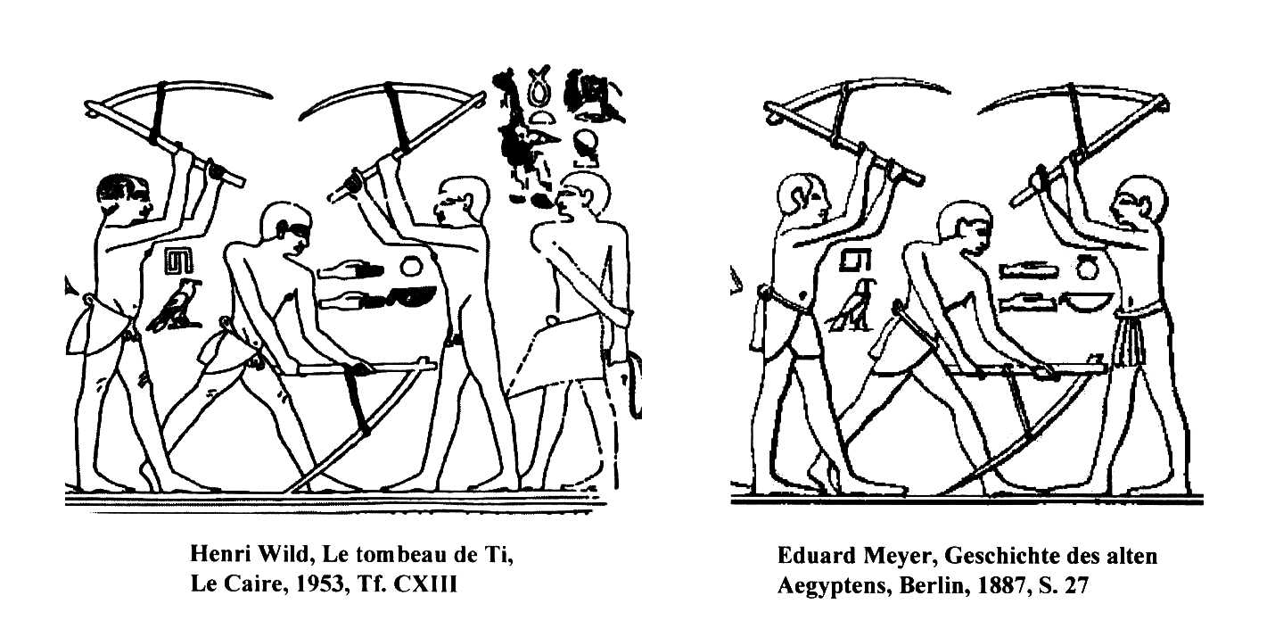 Correct (left) and faked reproduction of a diagram in the Mastaba of Ti. The fake from a book of the 19th century hides the genitals.